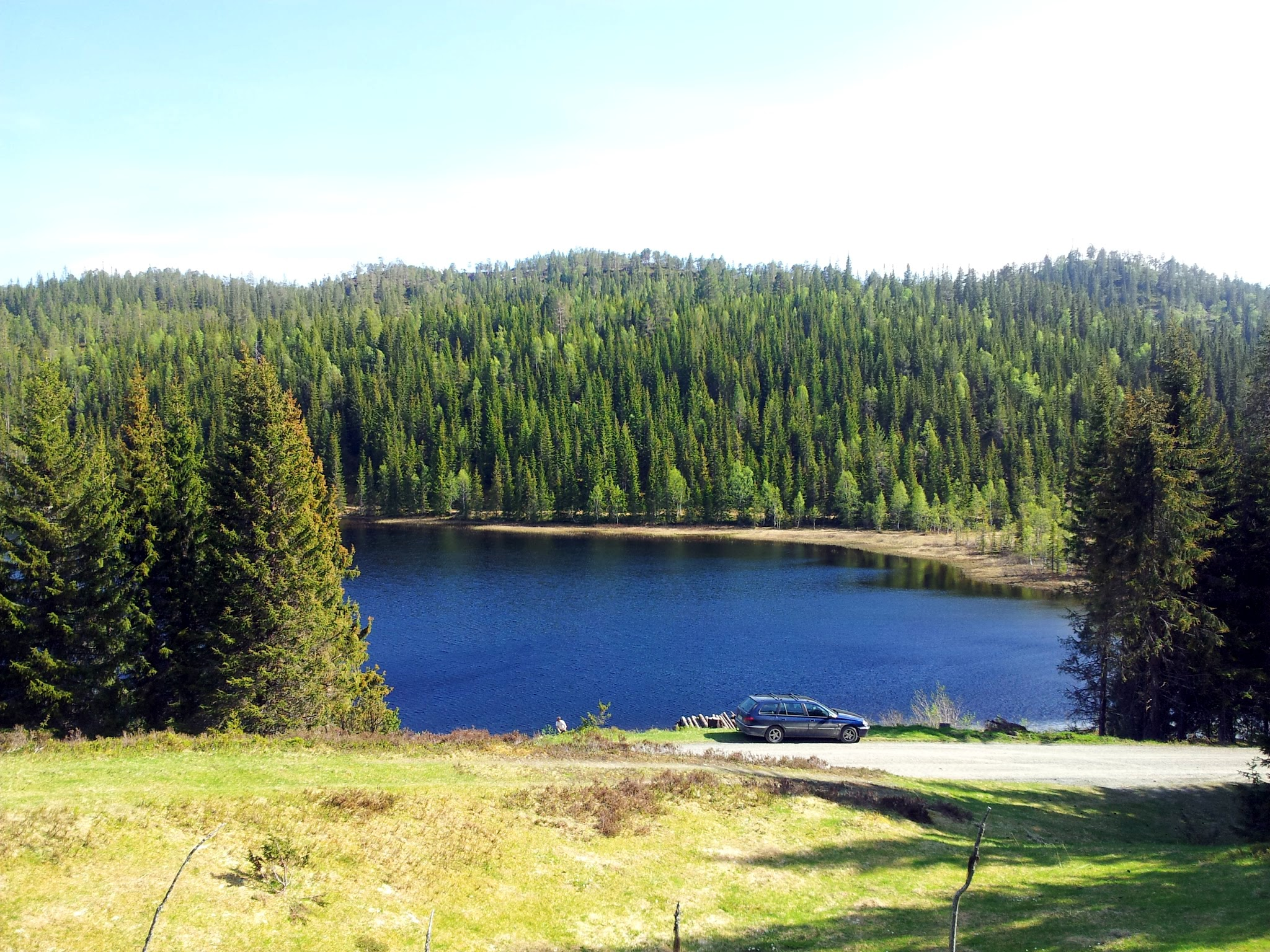 The lake Sandholtvatnet in the municipality of Melhus in mid-Norway..